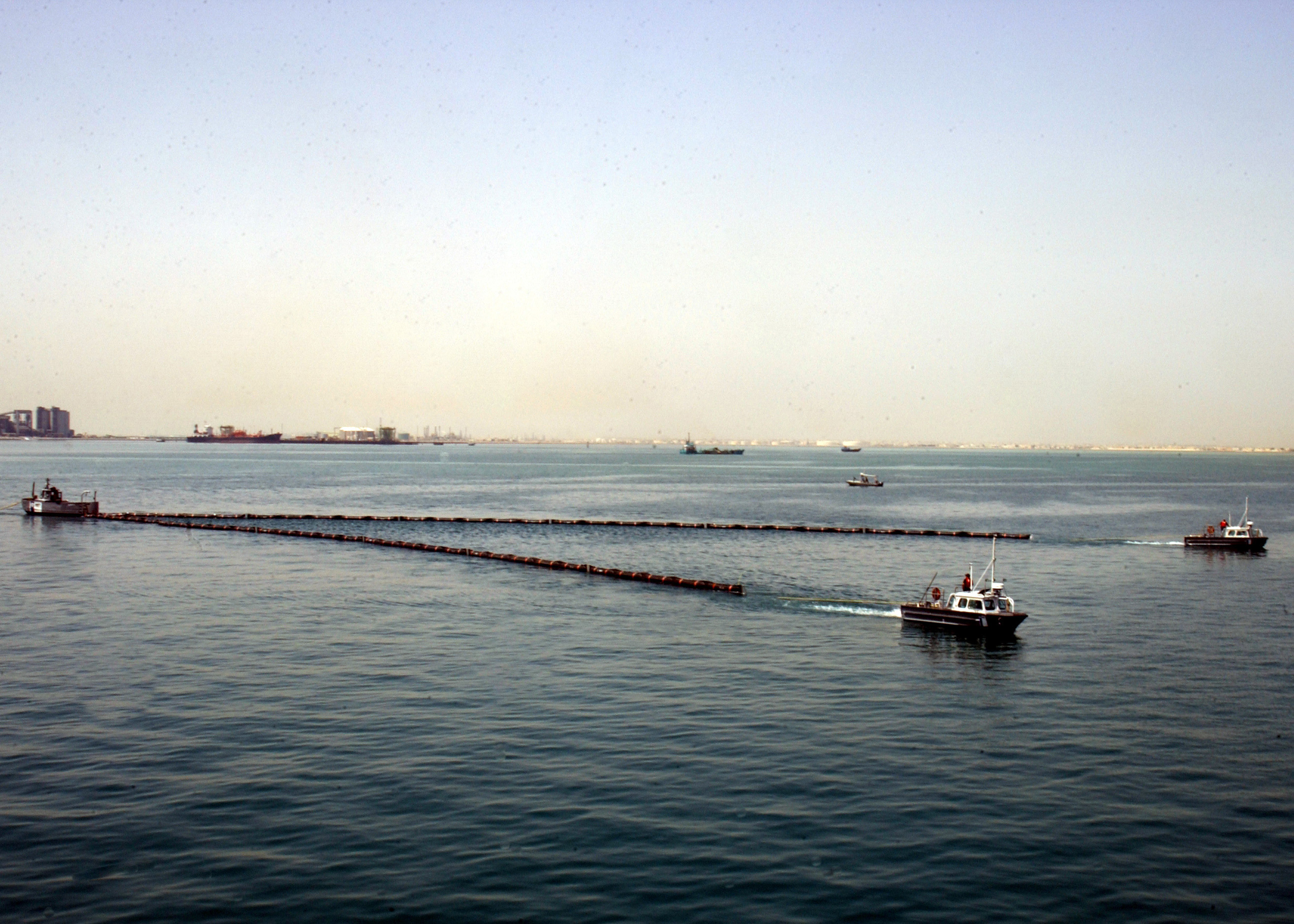 Manama, Bahrain (April 29, 2006) - Two offshore skimmers tow an oil containment boom across the water during an oil spill and recovery proof of concept demonstration. An oil containment boom is a floating barrier, which is used to respond quickly and collect and recover offshore oil spills. The proof of concept demonstration focused on the ability of U.S. Navy and host nation assets to quickly react and respond to hazardous materials in the waterways. U.S. Navy photo by Journalist 2nd Class Cassandra Thompson (RELEASED)